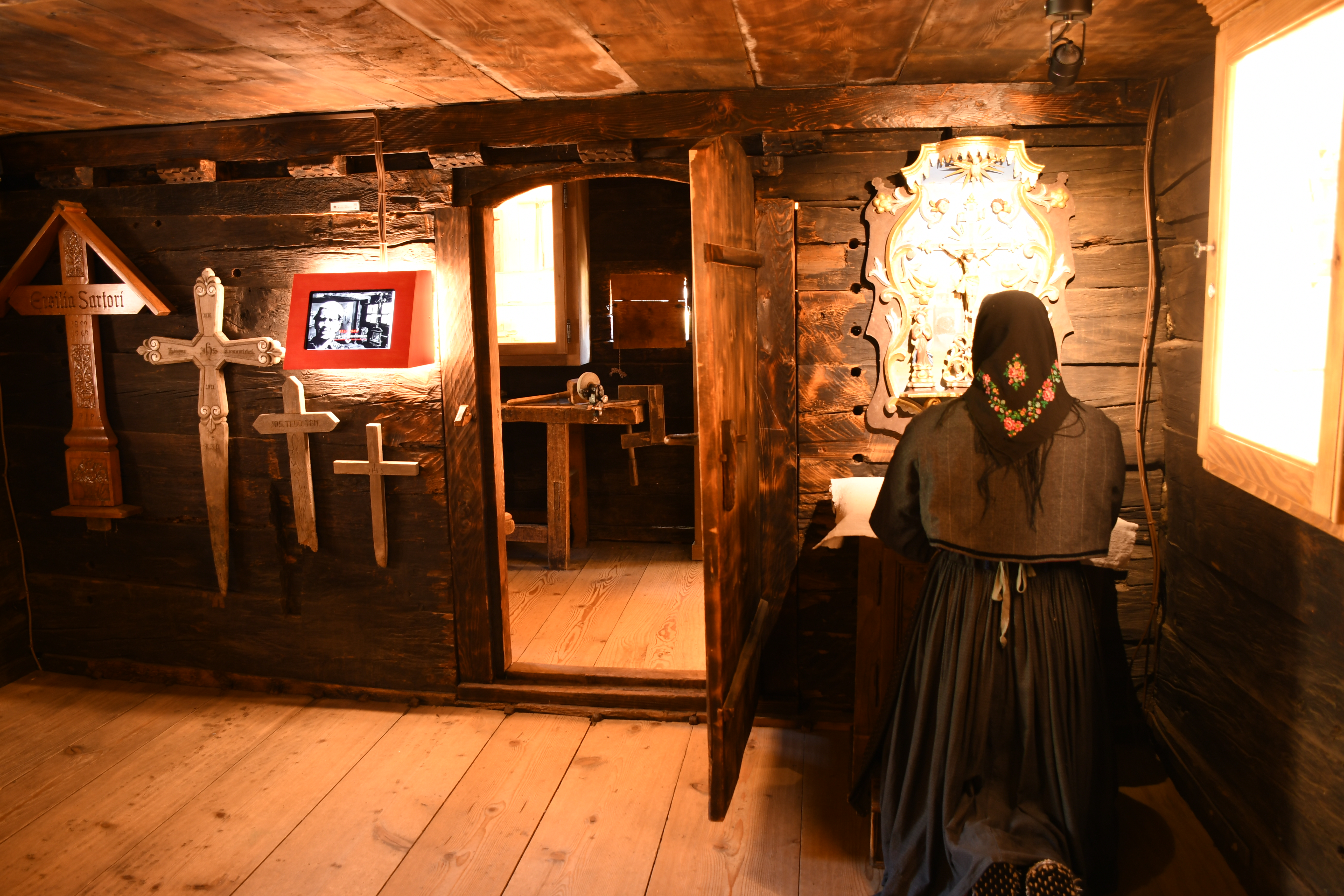 Walserhaus_Internal_Thematic_Room_Religion.